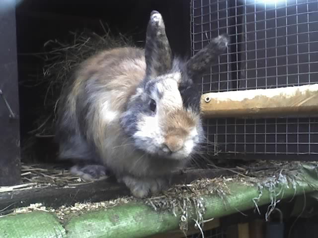 Rabbit Jamora, male, photo 25.10.2007 in Pilsen - Litice, photo own Eva Honzikova Mrazova.